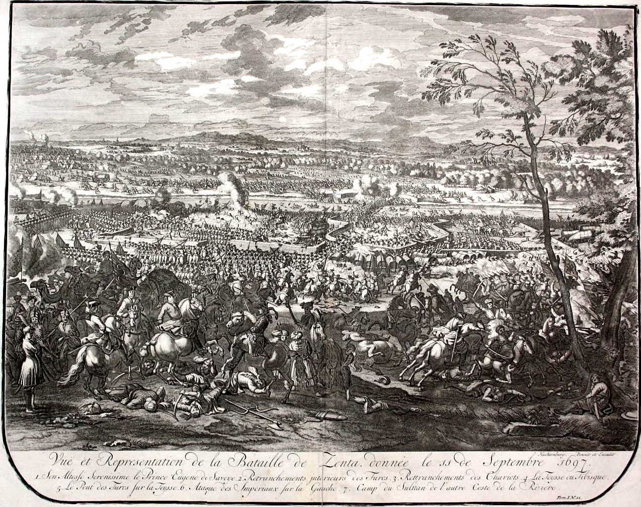 The Battle of Senta (1697)